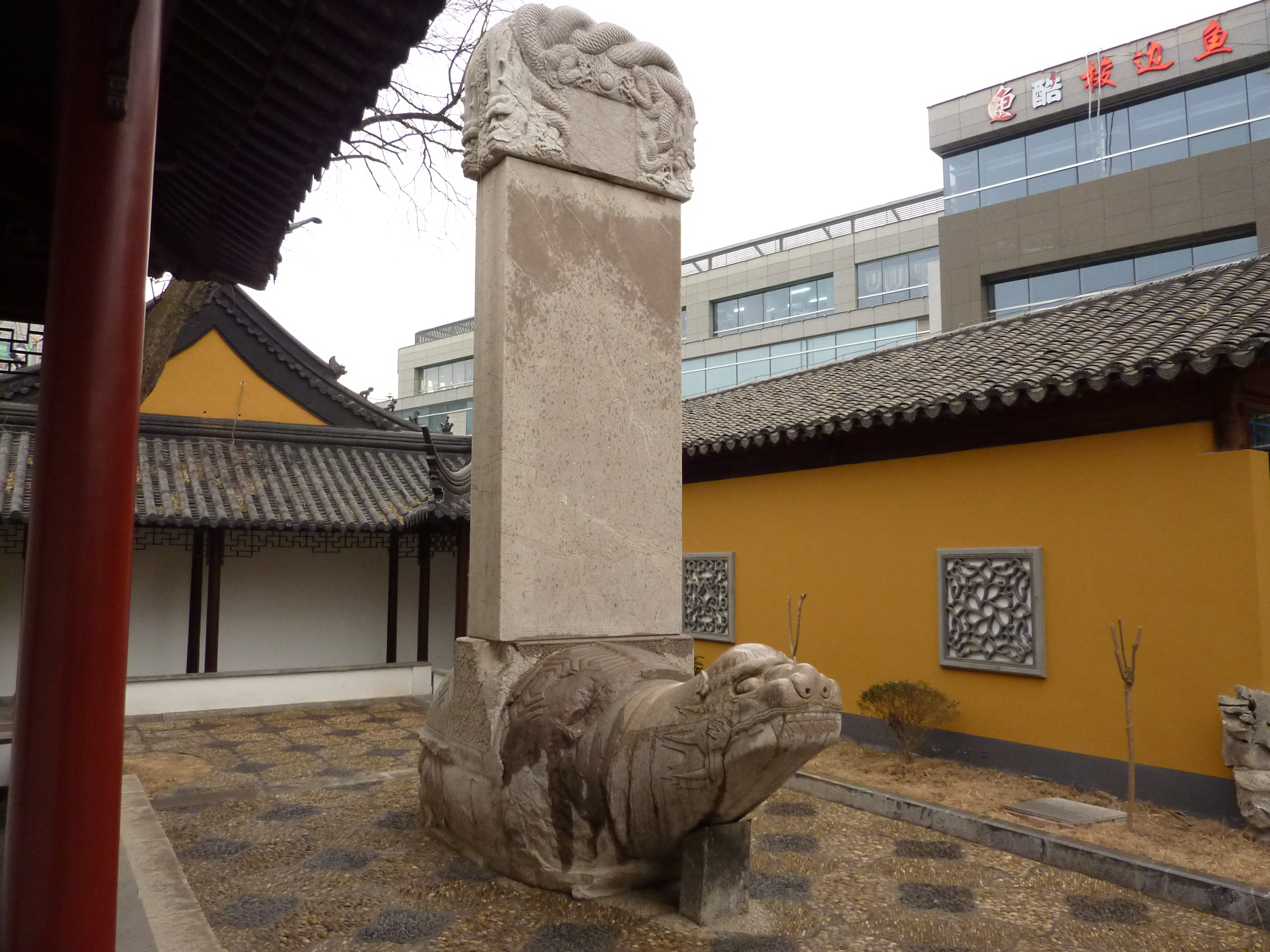 The original (restored) Tianfei Gong Stele, in Jinghai Temple, Nanjing.